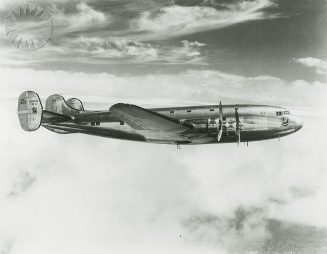 SI Neg. 2002-4243. Date: 10/5/1938..Douglas DC-4E (r/n NX 18100) in flight, written at the bottom of the image, "DC-4, 10-5-38 October 5, 1938, 14001". ..Credit: unknown (Smithsonian Institution)